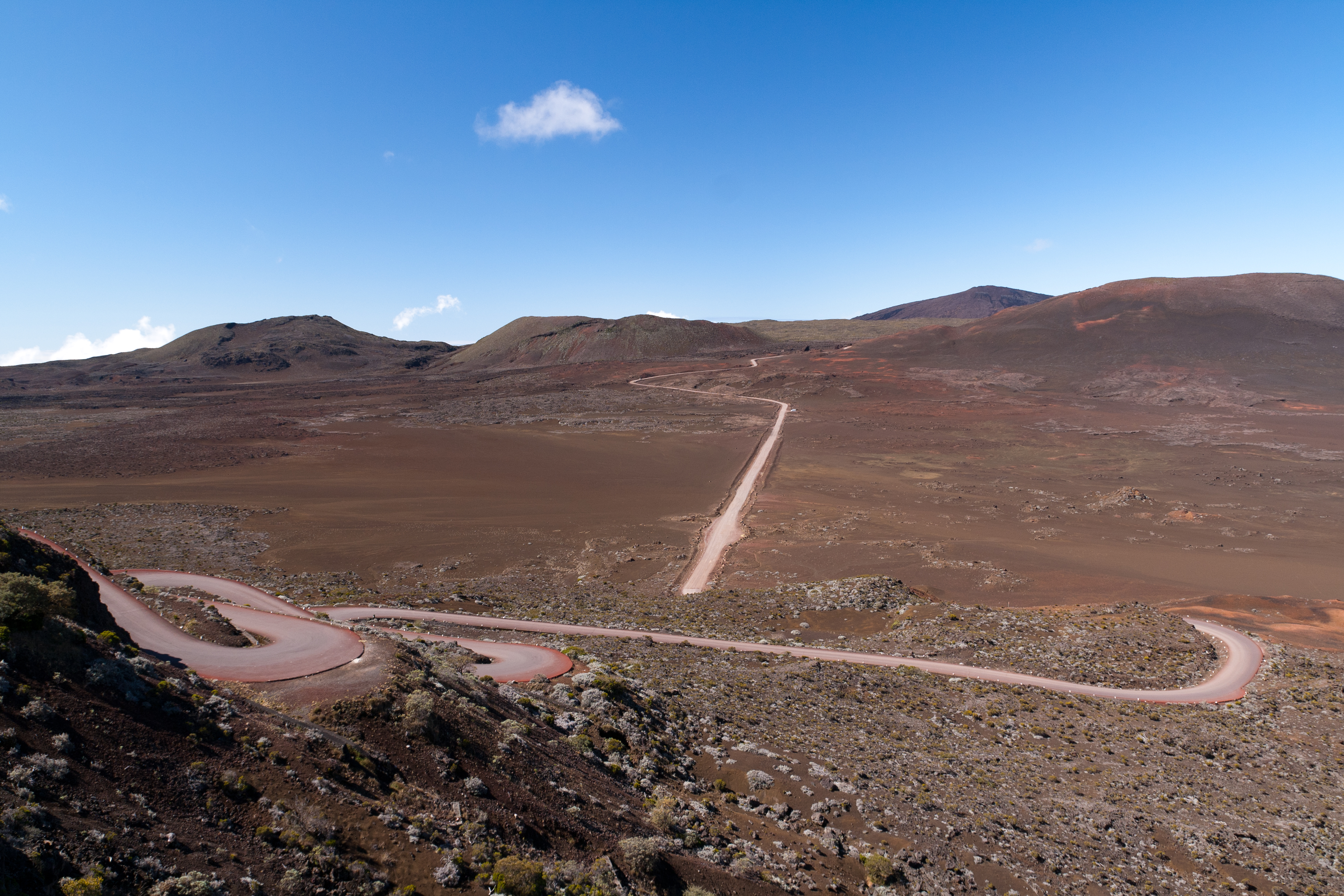 Plaine des Sables ('sandy plain'), en route to Piton de la Fournaise volcano, Réunion Island